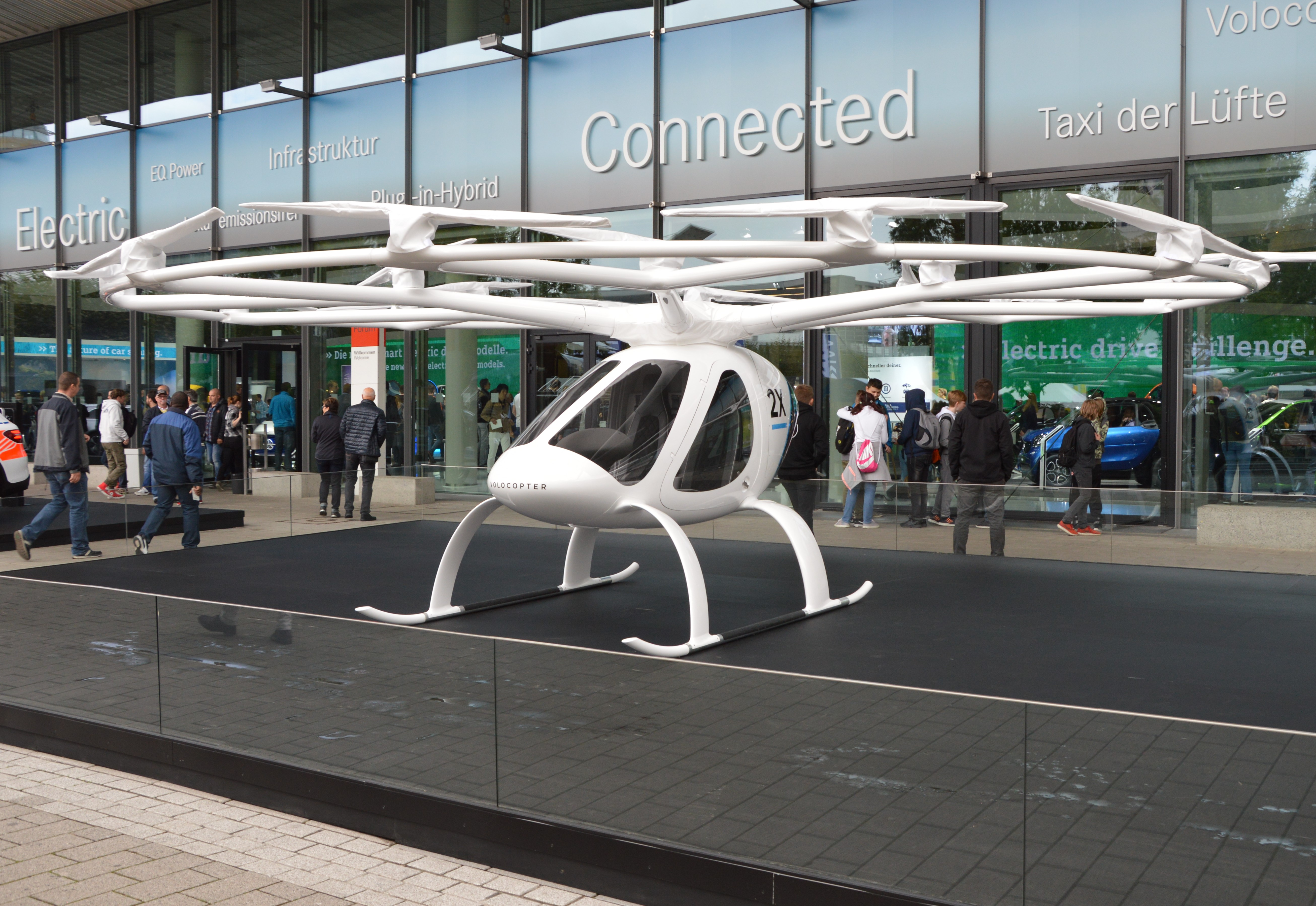 Volocopter 2X at IAA 2017. Electric ultralight VTOL (vertical take-off and landing) rotary wing aircraft. Certification as "light sport multicopter". Photo cropped but no further processing yet.